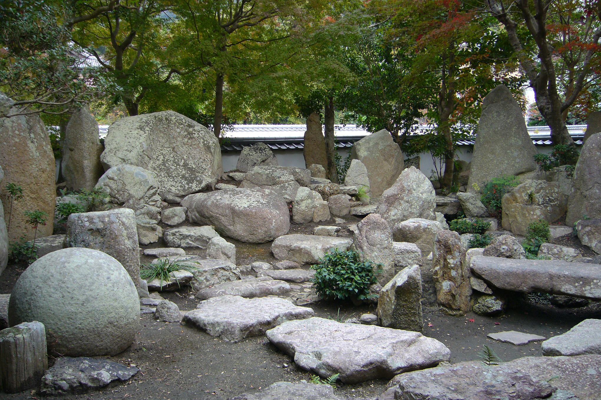 Anyoin, Kobe, Hyogo prefecture, Japan